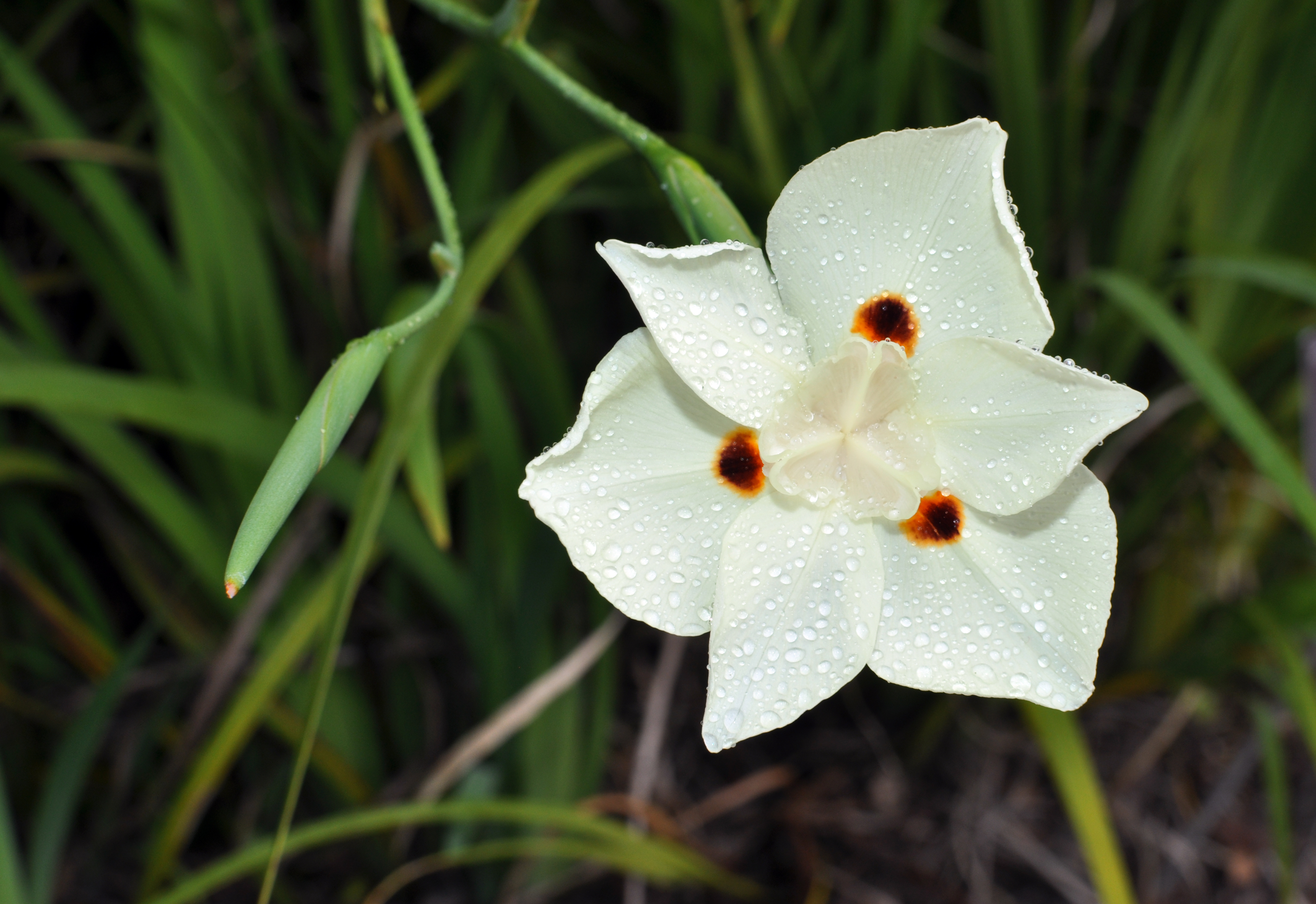 Flower of Dietes bicolor at Conservatoire botanique national de Brest Conservatoire botanique national de Brest Native nameConservatoire botanique national de BrestLocationBrest, FranceCoordinates48° 24′ 10.35″ N, 4° 26′ 53.58″ W Established1975: established, 1978: opened to publicWeb page Authority control : Q2994486 VIAF: 135879850 ISNI: 0000 0000 9261 8684 LCCN: no95047958 WorldCat institution QS:P195,Q2994486